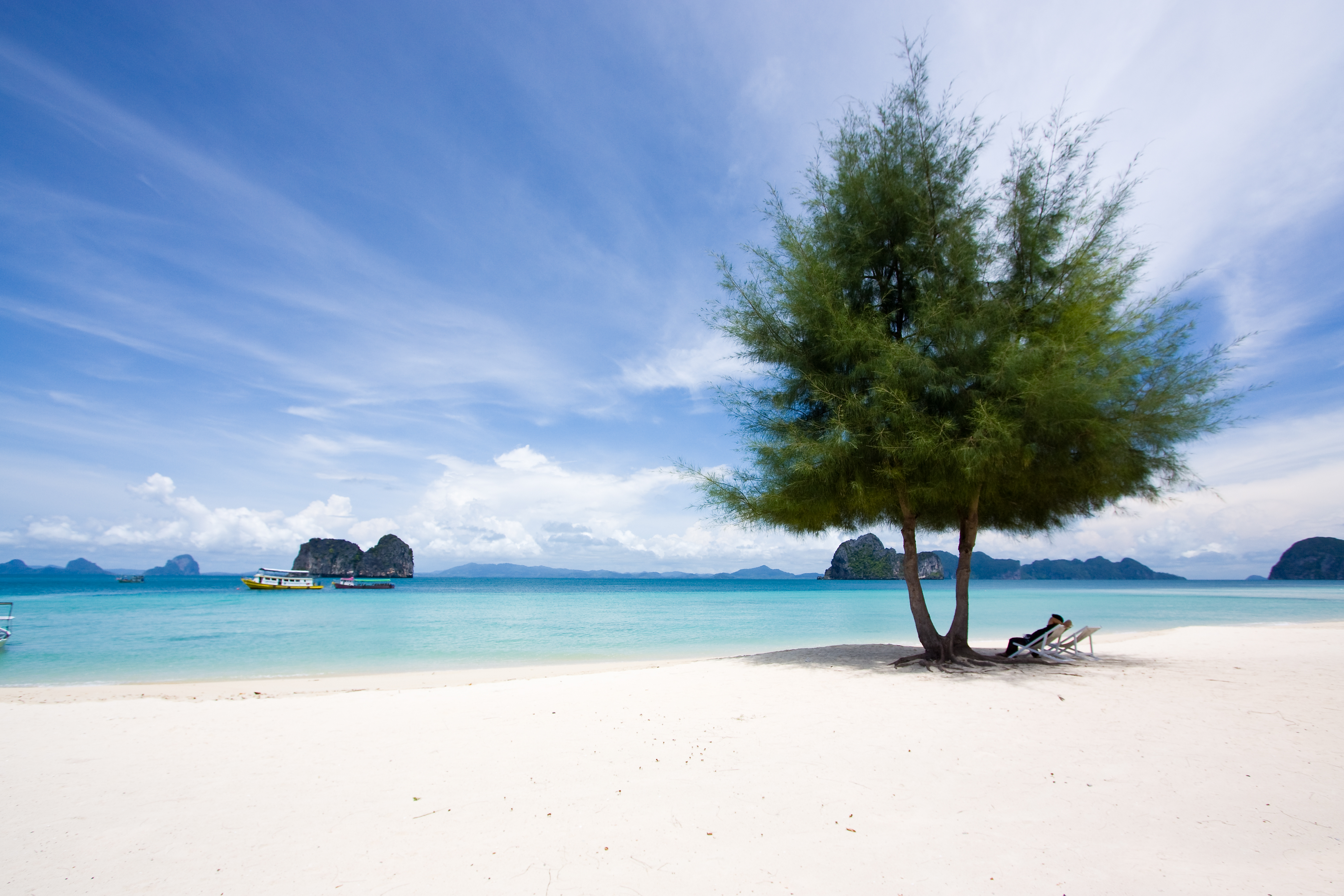 อุทยานแห่งชาติหาดเจ้าไหม